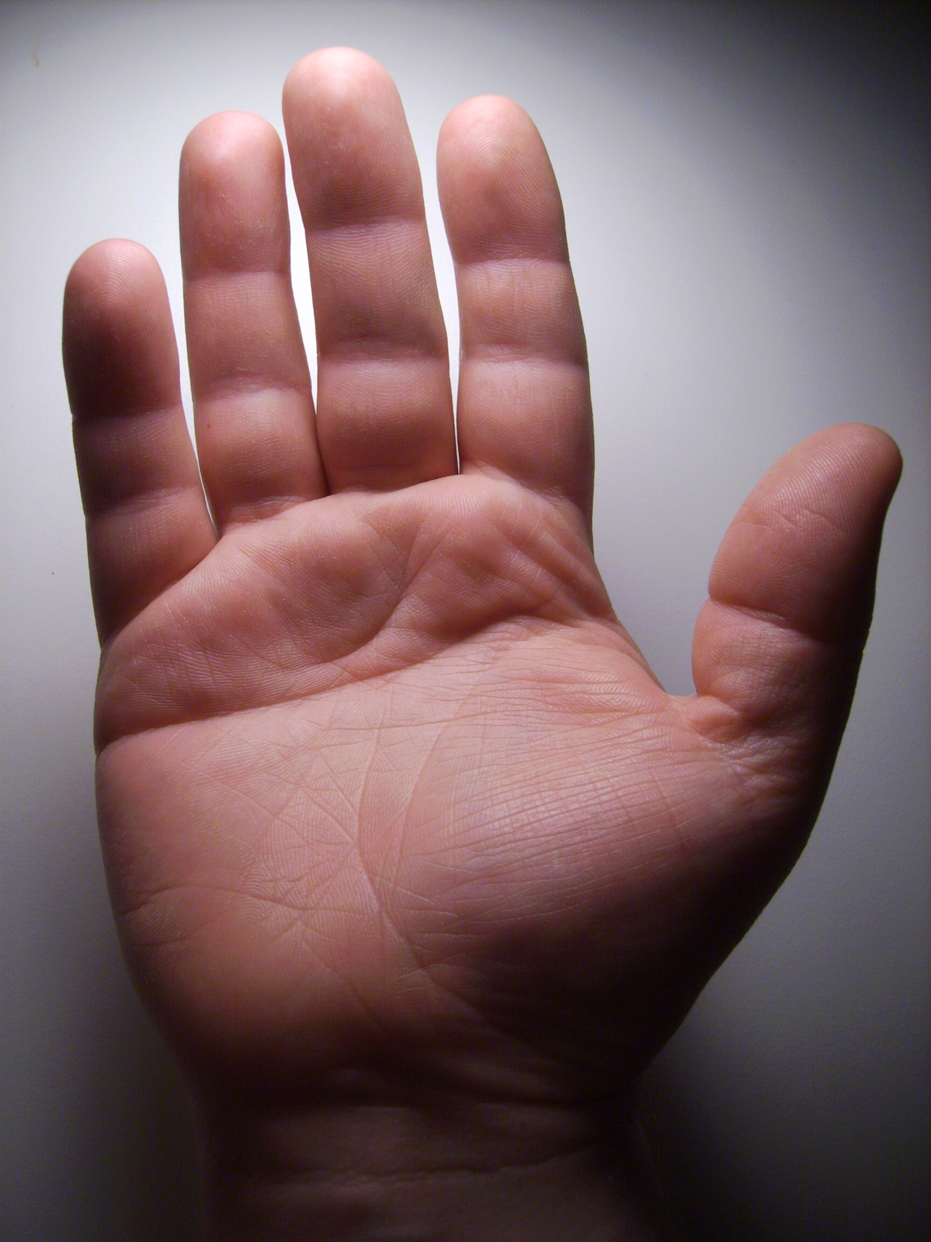 An adult hand showing a single transverse palmar crease